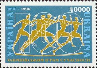 Stamp of Ukraine